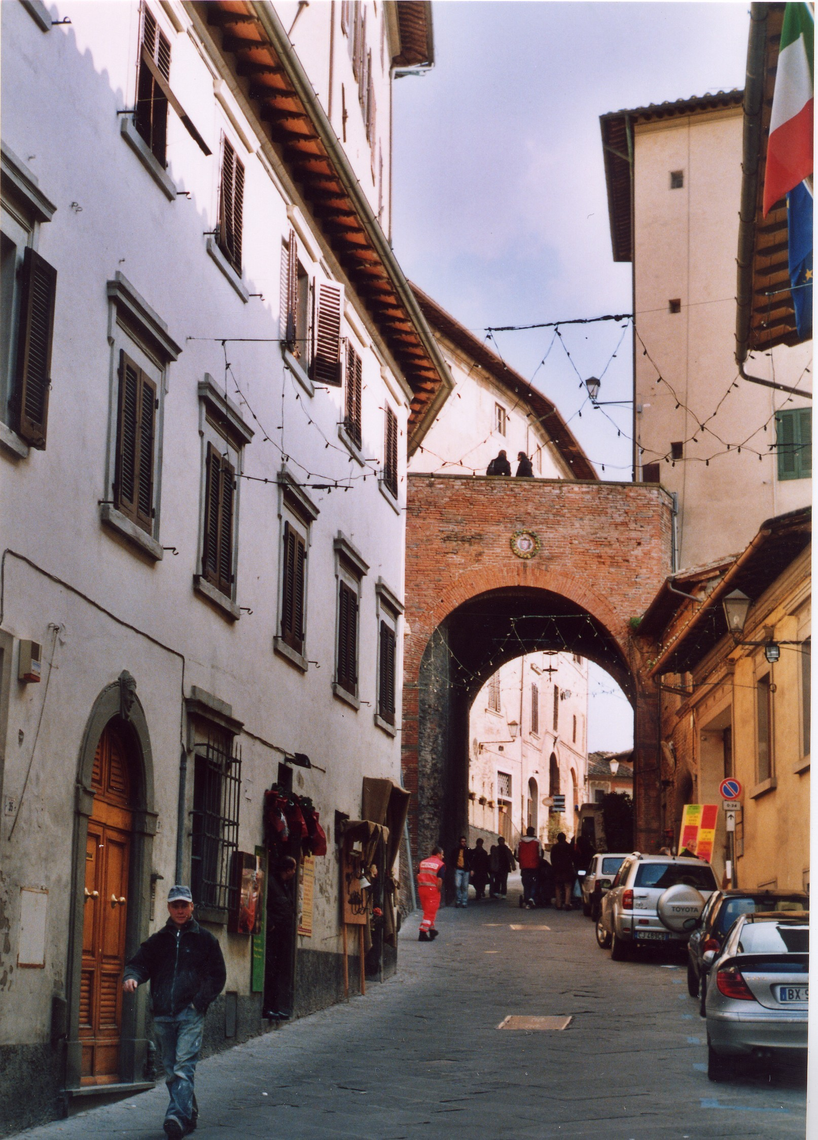 Center of San Miniato with Porta Toppiarorum